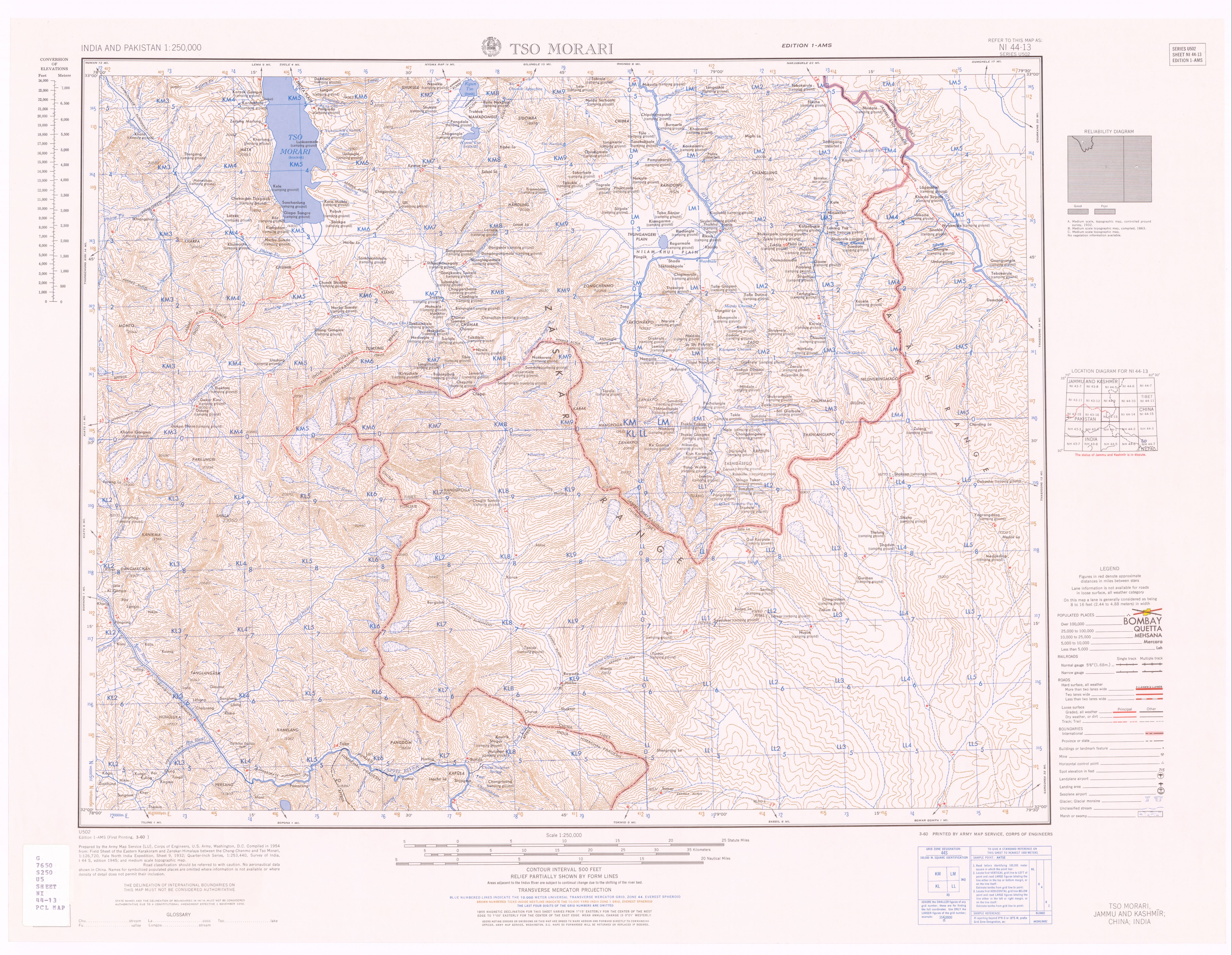 NI 44-13 Tso Morari. Tile of the Map India and Pakistan 1:250,000. Series U502, U.S. Army Map Service, 1955